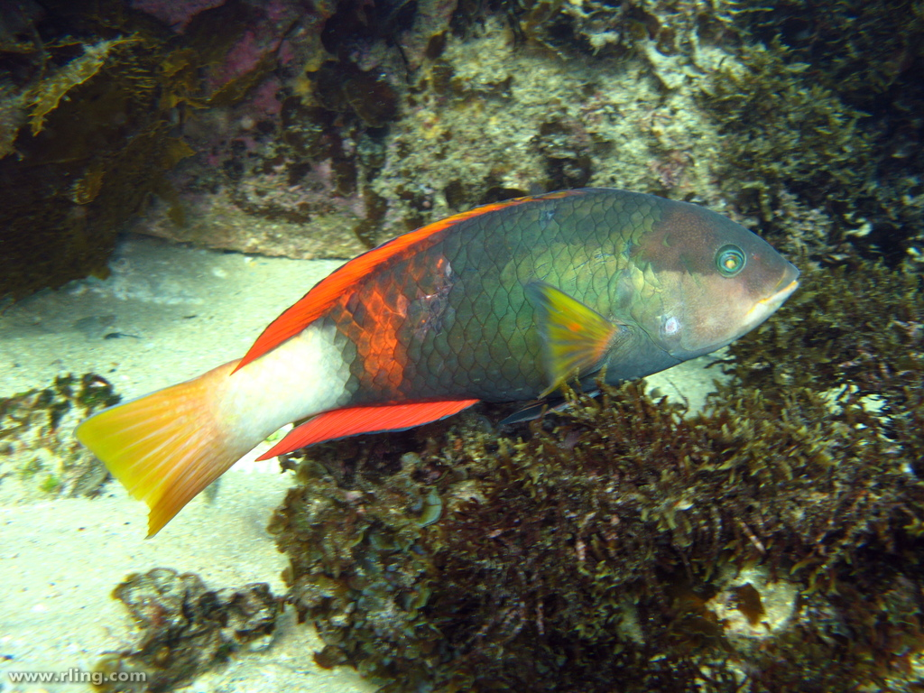 A male Crimson-banded Wrasse (Notolabrus gymnogenis). Fairy Bower, Manly, NSW